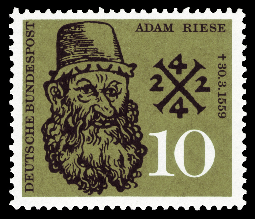 400th day of death of Adam Riese (1492-1559) Graphics by Michel und Kieser Ausgabepreis: 10 Pfennig First Day of Issue / Erstausgabetag: 28. März 1959 Michel-Katalog-Nr: 308